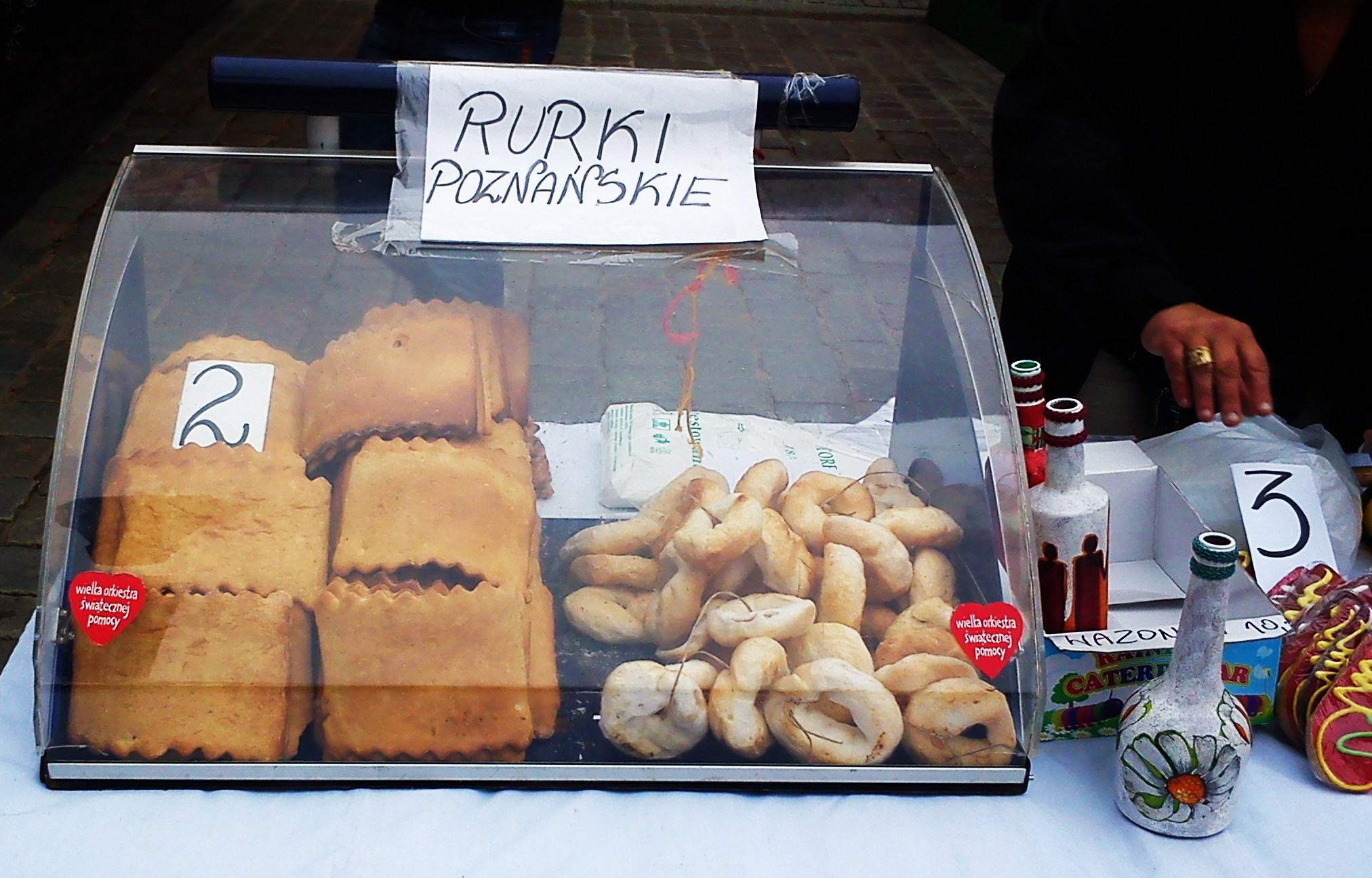 Traditional Poznan's Cake - Rury.